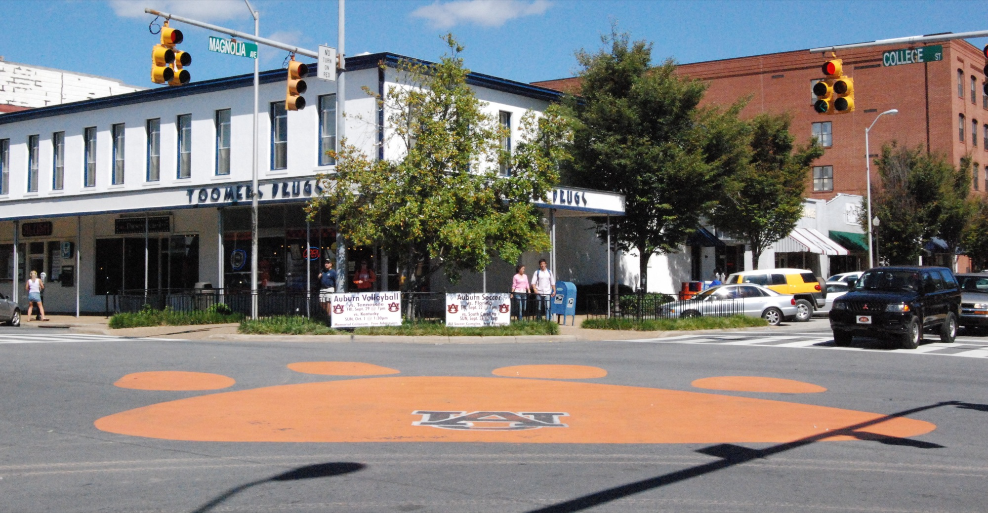 Big Tiger Paw at Toomer's Corner on the edge of the Auburn University campus in Auburn, Alabama.